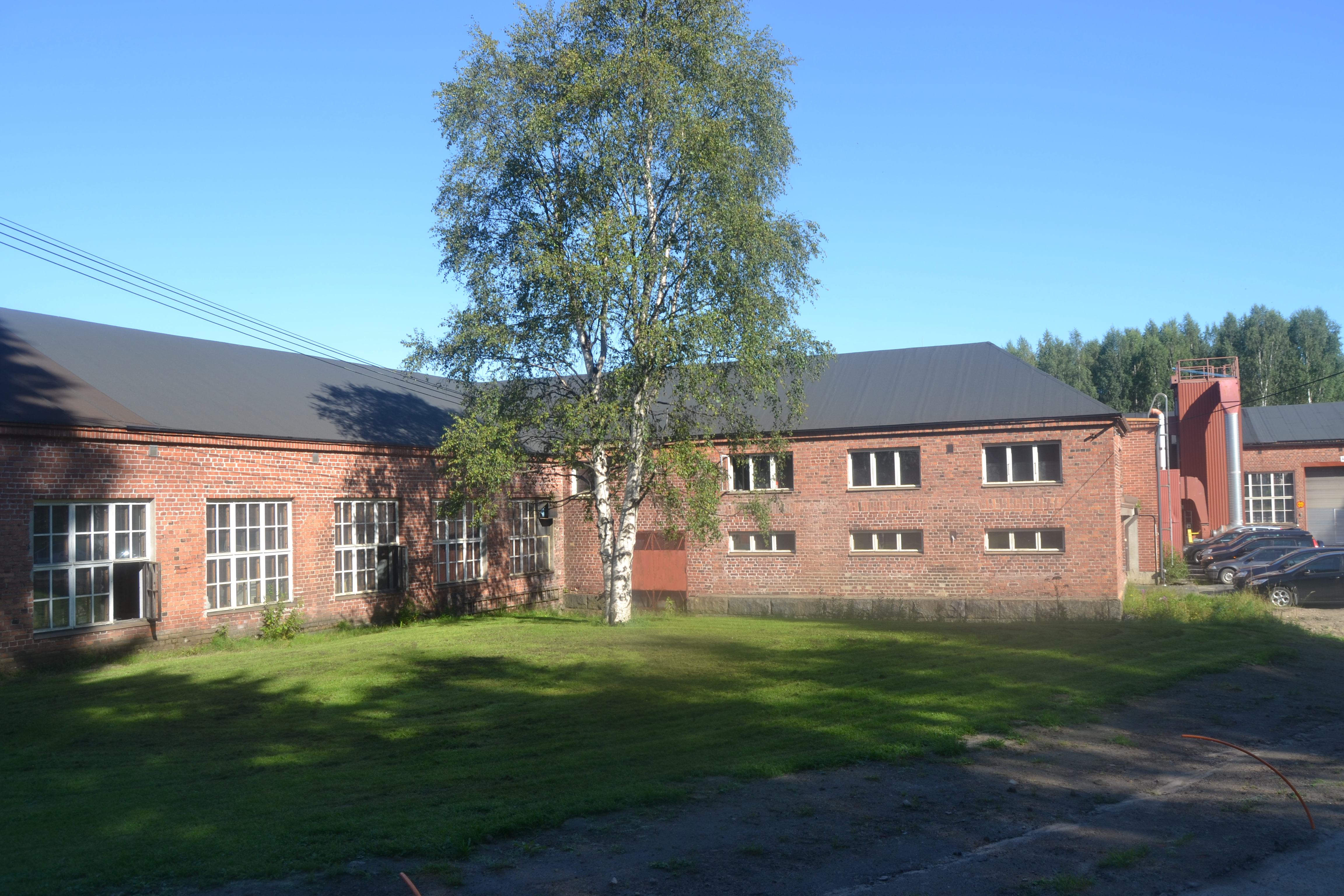 Koskensaari nail factory in Petäjävesi, Finland